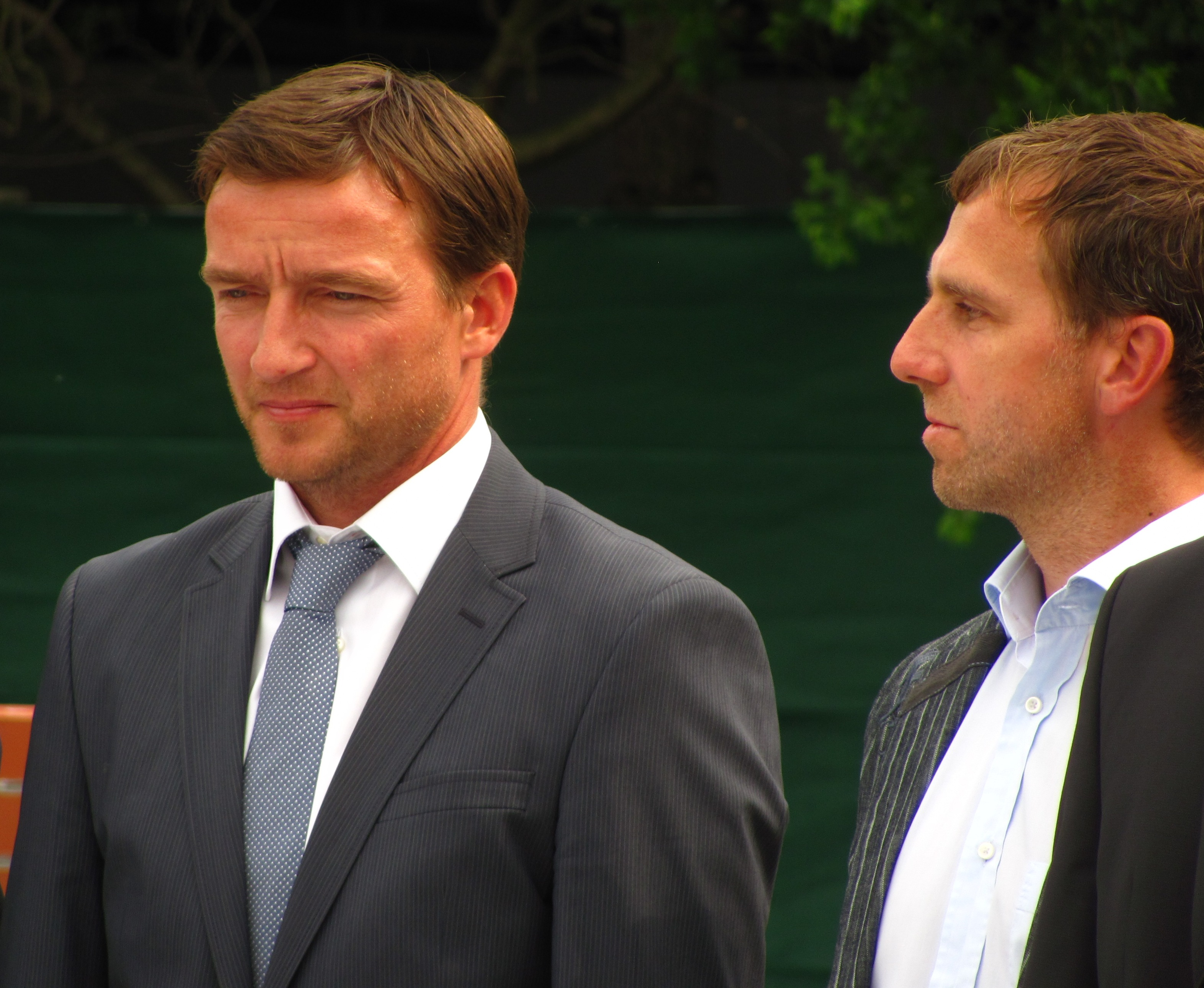 Vladimír Šmicer and Karel Poborský, Czech football players. Photo taken on May 31, 2012 in Prague - Juliska during the ceremony of installation of a statue of Josef Masopust, Czech footballer.